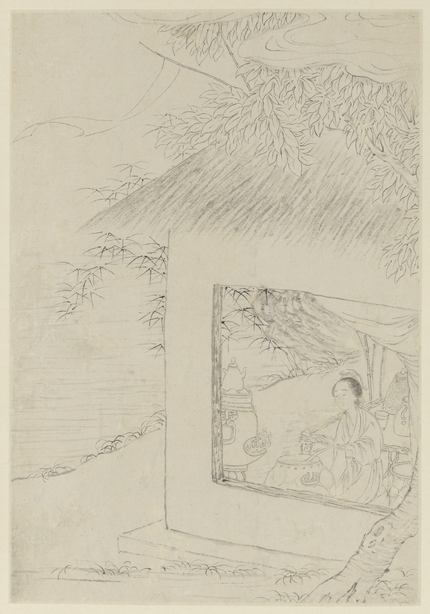 This depicts the deity Magu (麻姑).